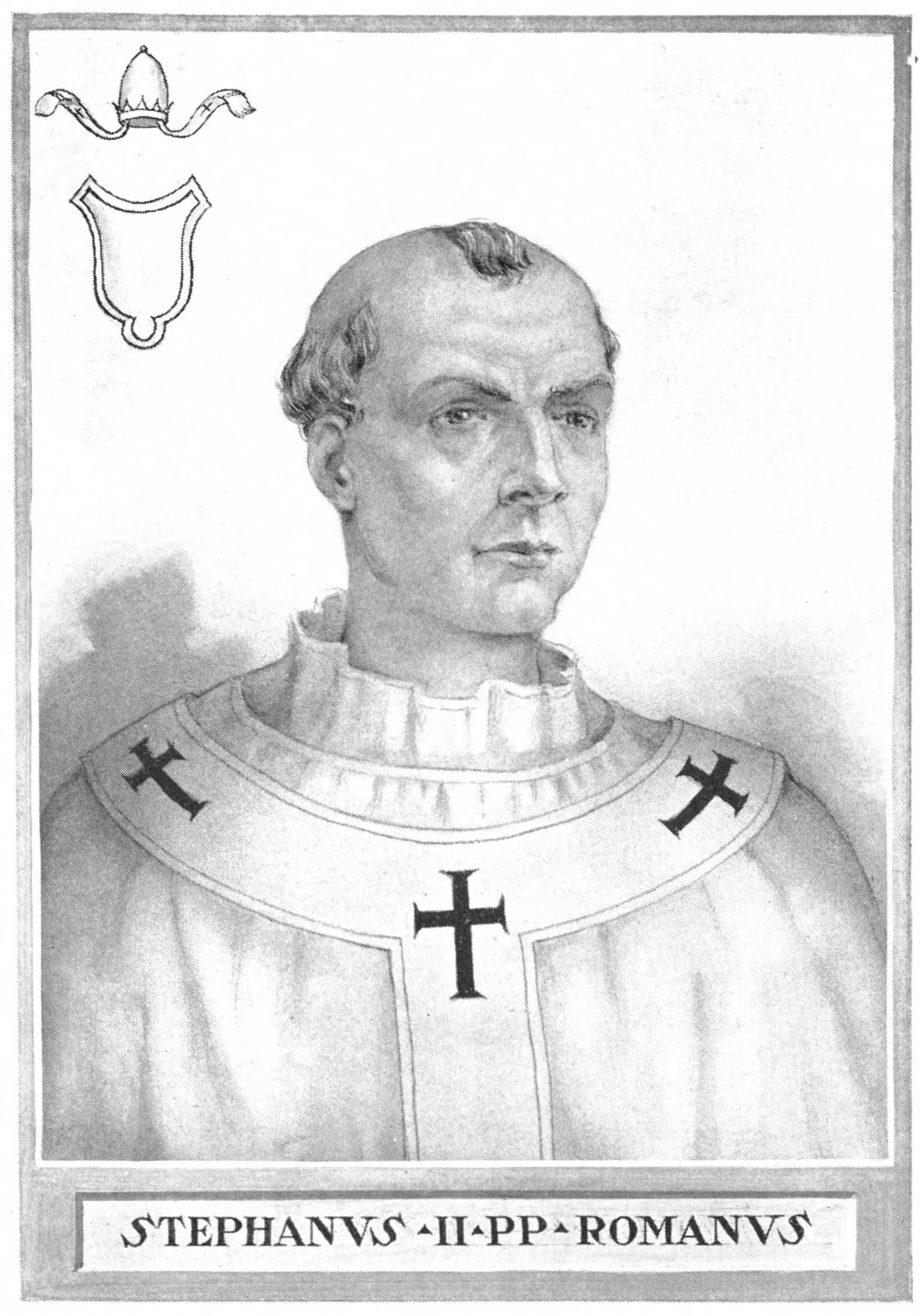 This illustration is from The Lives and Times of the Popes by Chevalier Artaud de Montor, New York: The Catholic Publication Society of America, 1911. It was originally published in 1842. This is pope-elect Stephen, previously known as Stephen II, but today more commonly not considered as one of the numbered popes.